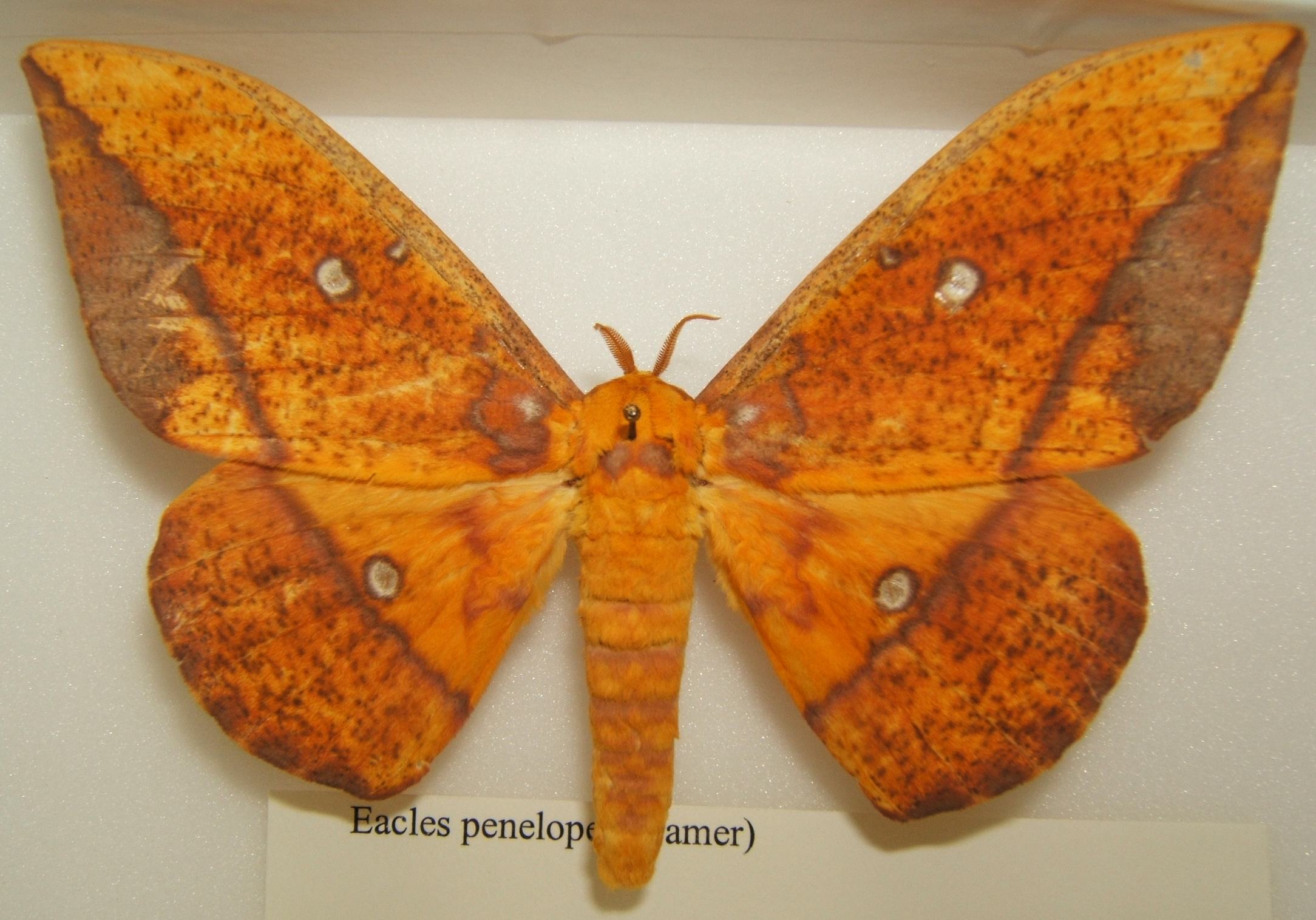 Eacles penelope adult male taken by Shawn Hanrahan at the Texas A&M University Insect Collection in College Station, Texas.